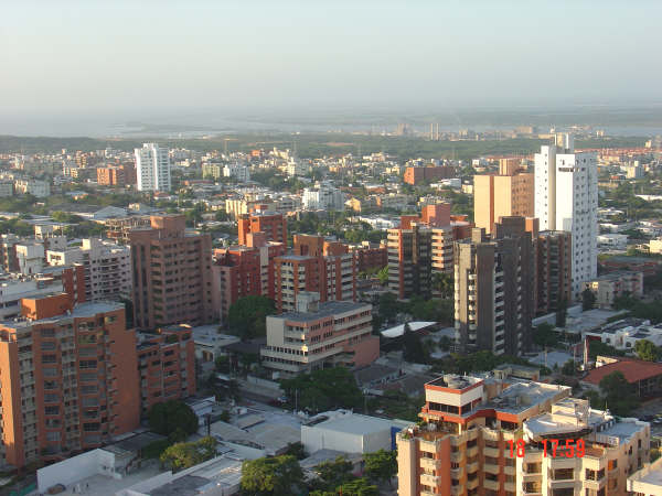 Image of Barranquilla, Colombia